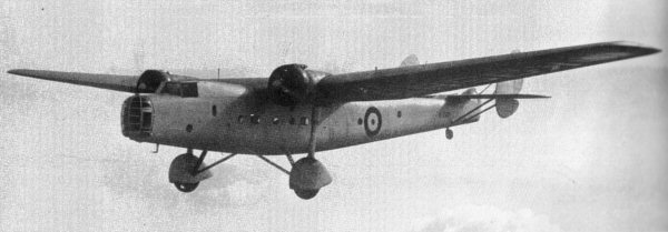 Bristol Bombay medium bomber. Photograph published in: Aircraft of the Fighting Powers Vol I Ed: H J Cooper, O G Thetford and D A. Russell Harborough Publishing Co, Leicester, England 1940. Photographer not identified, so UK Copyright contended to have lapsed 50 years after publication. Picture prepared for Wikipedia by Keith Edkins in April 2004.